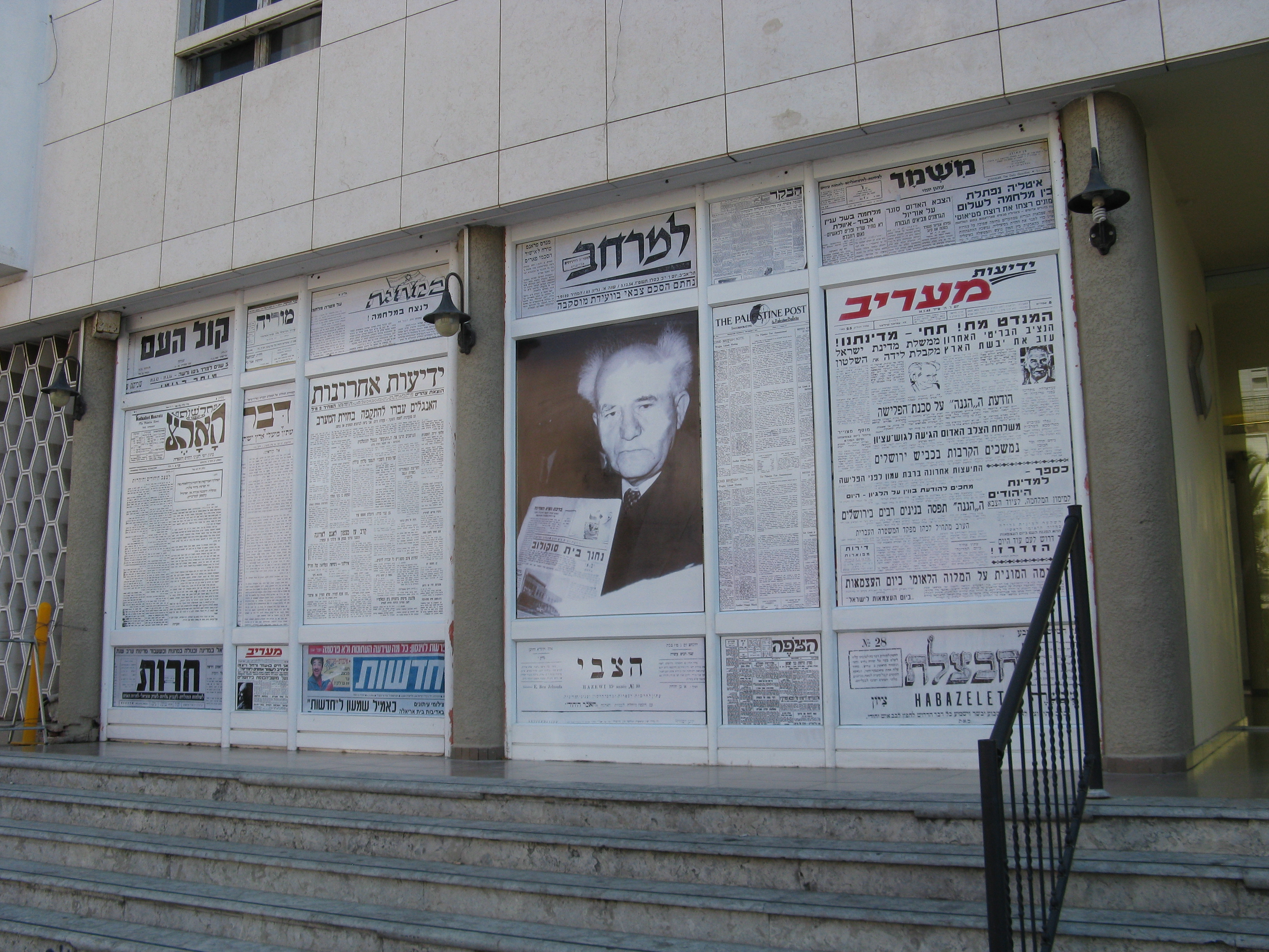 The external wall of Sokolov House in Tel Aviv